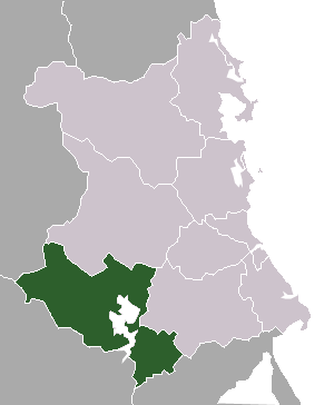 Location of Song Hinh in Phu Yen Province